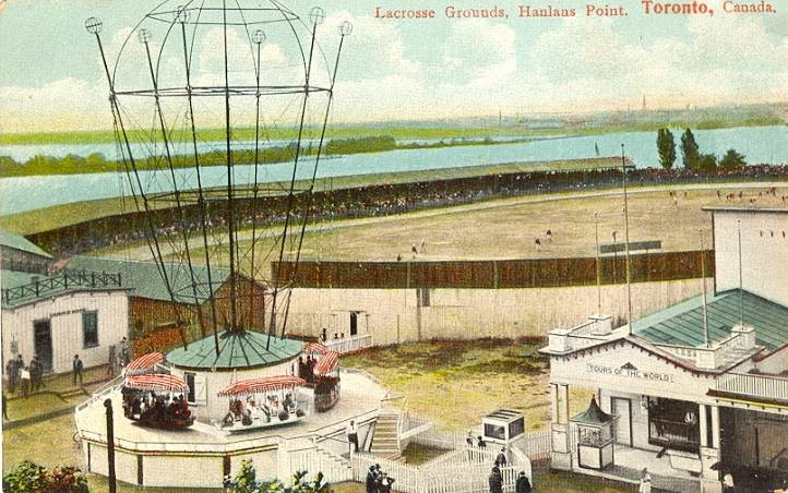 Lacrosse grounds at Hanlans Point, Toronto Islands, Toronto, Canada.